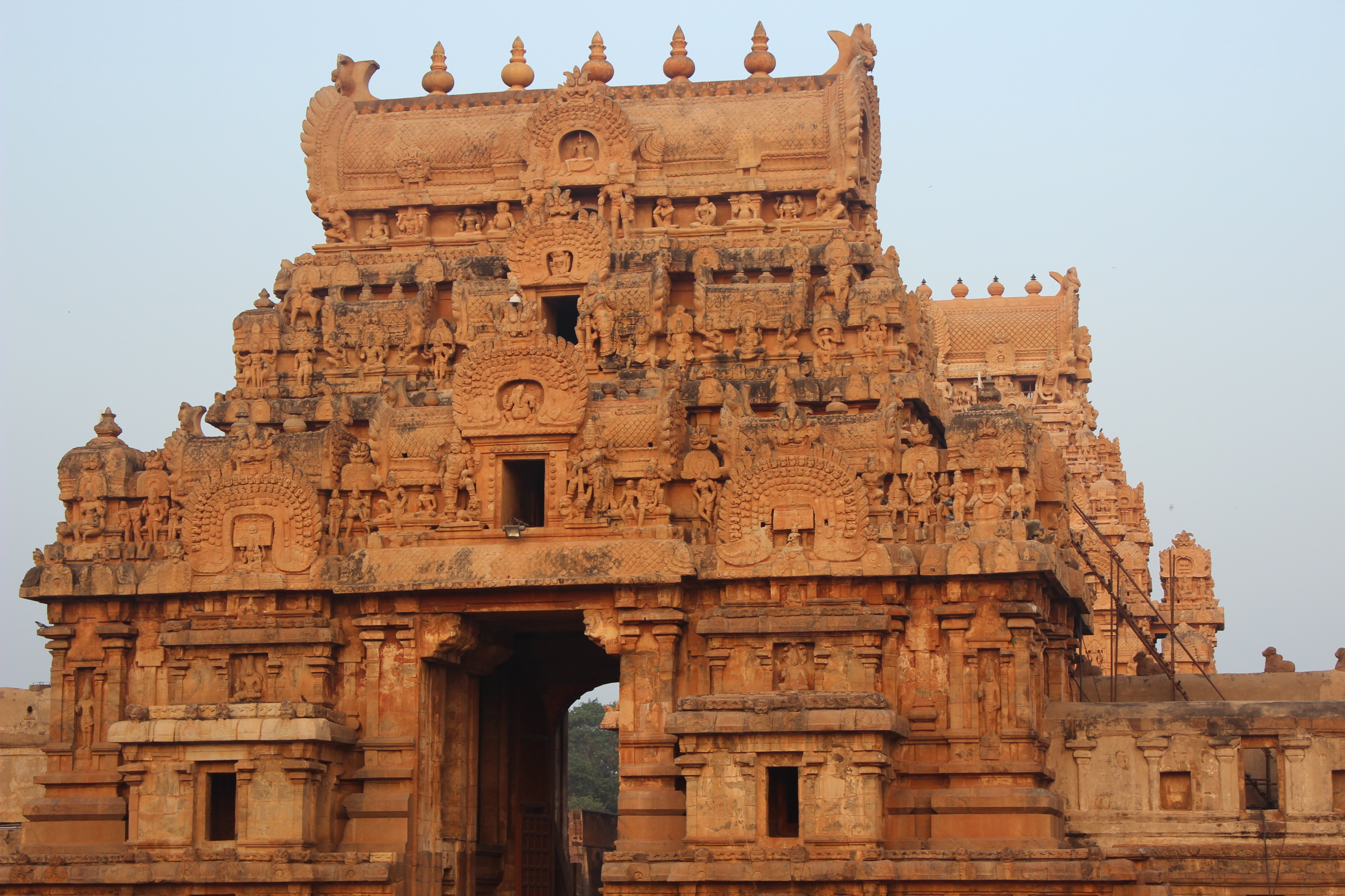 Brihadeeswara Temple Entrance Gopurams, Thanjavur